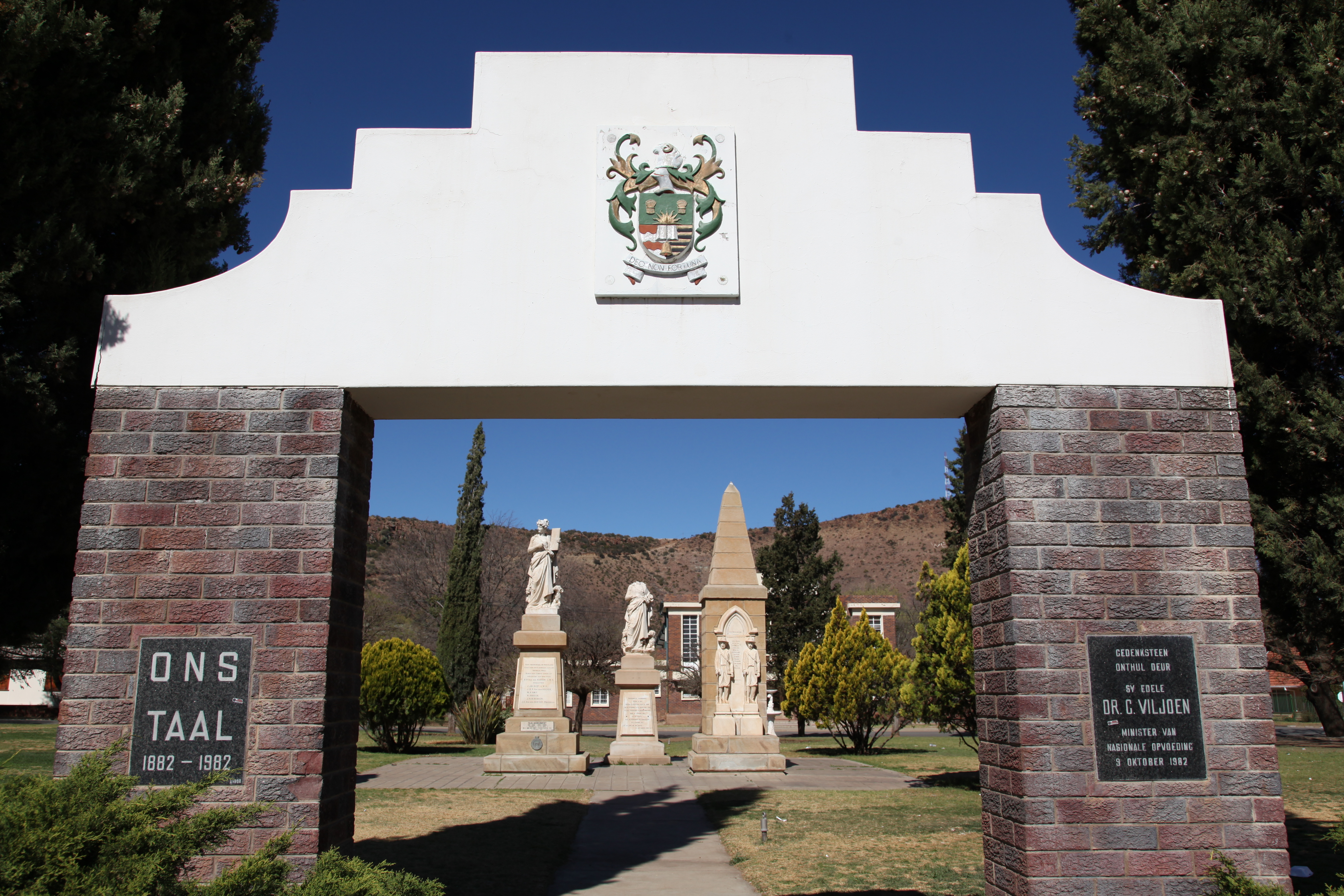 The Dutch Language Monument in Burgersdorp, Eastern Cape, South Africa. The original of 1893, removed and vandalised by British forces during the Boer War, stands at center, while the replacement supplied by the British in 1907, stands at left.[1] On the right is the Burgher monument, unveiled in 1908, commemorating 13 burghers of the area that died during the Boer War. ↑ a b Dutch as official language, Ancestry24